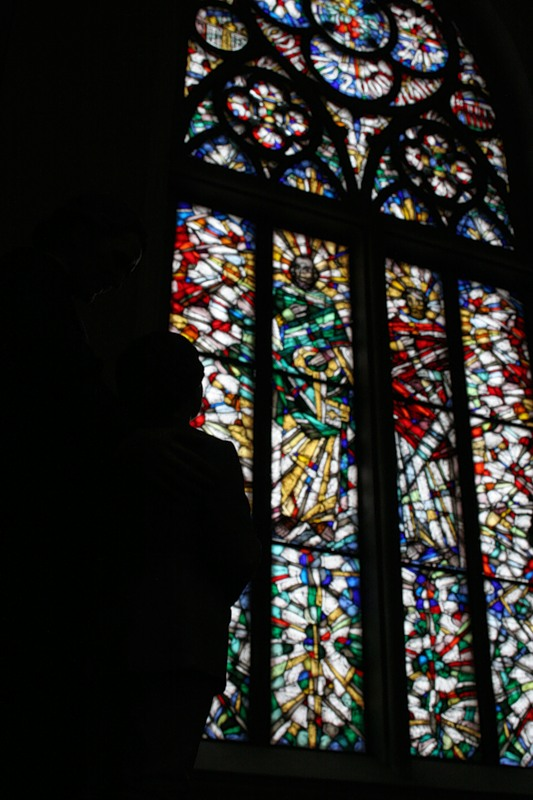 Cathedral of the Immaculate Conception of the Holy Virgin Mary, Moscow. Stained-glass window.